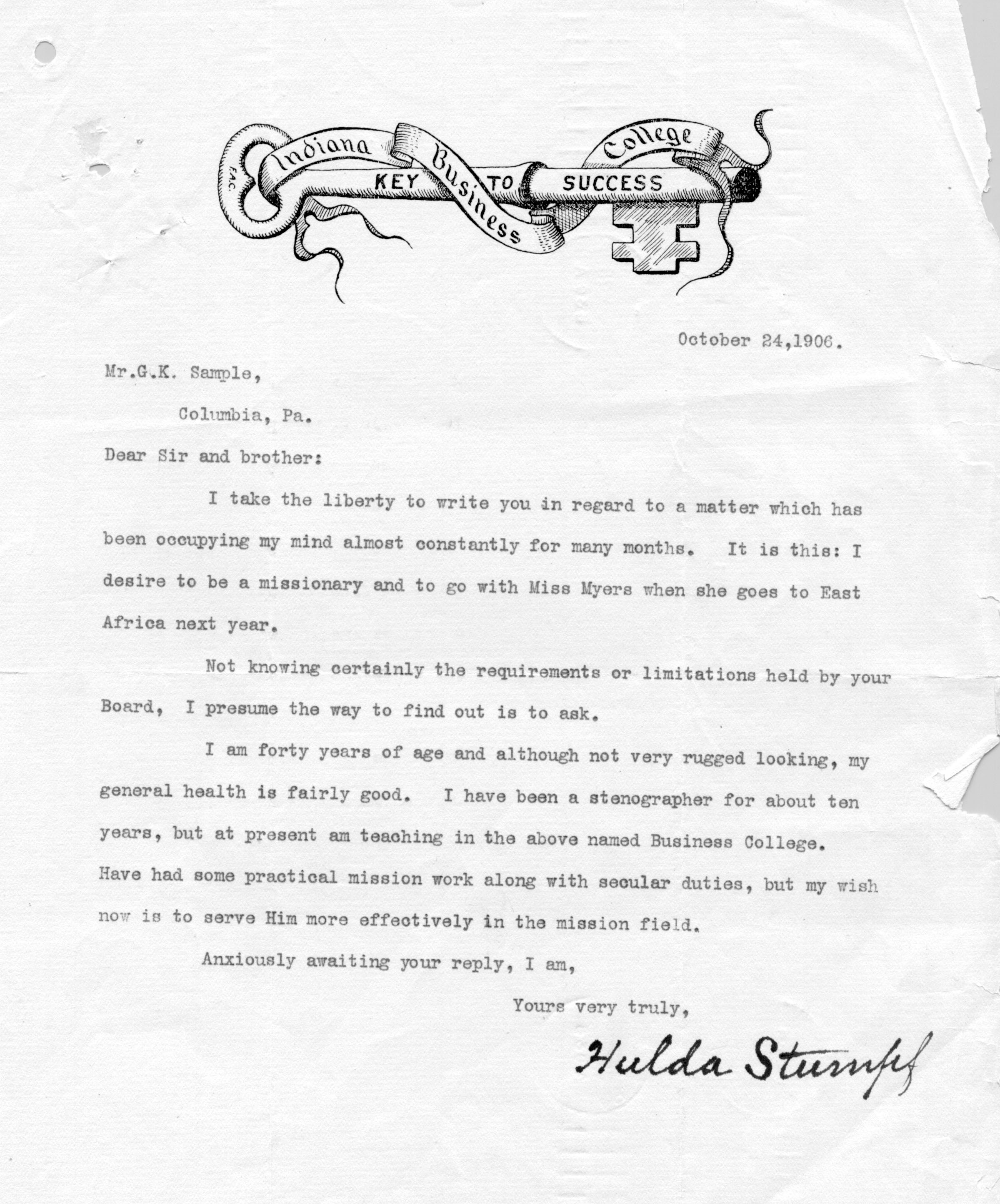 Letter from Hulda Stumpf (1867–1930), at the time a teacher of shorthand at Indiana Business College, Indiana, Pennsylvania, to the Africa Inland Mission, an American missionary organization, applying for a position. Stumpf became a missionary in Kenya, where she became known for objecting to female genital mutilation. She was killed there in 1930, possibly because of her views.